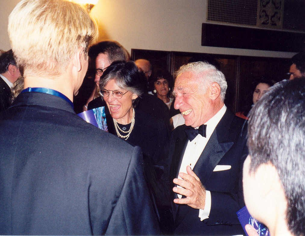 Anne Bancroft and Mel Brooks talking to Bette Midler who is obscured by the man on the left. The photo has been taken at the 49th Emmy Awards in 1997.